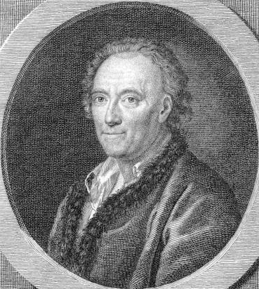 Latvian hymn-writer Christoph Friedrich Neander / Kristofs Frīdrihs Neanders (1723-1802).